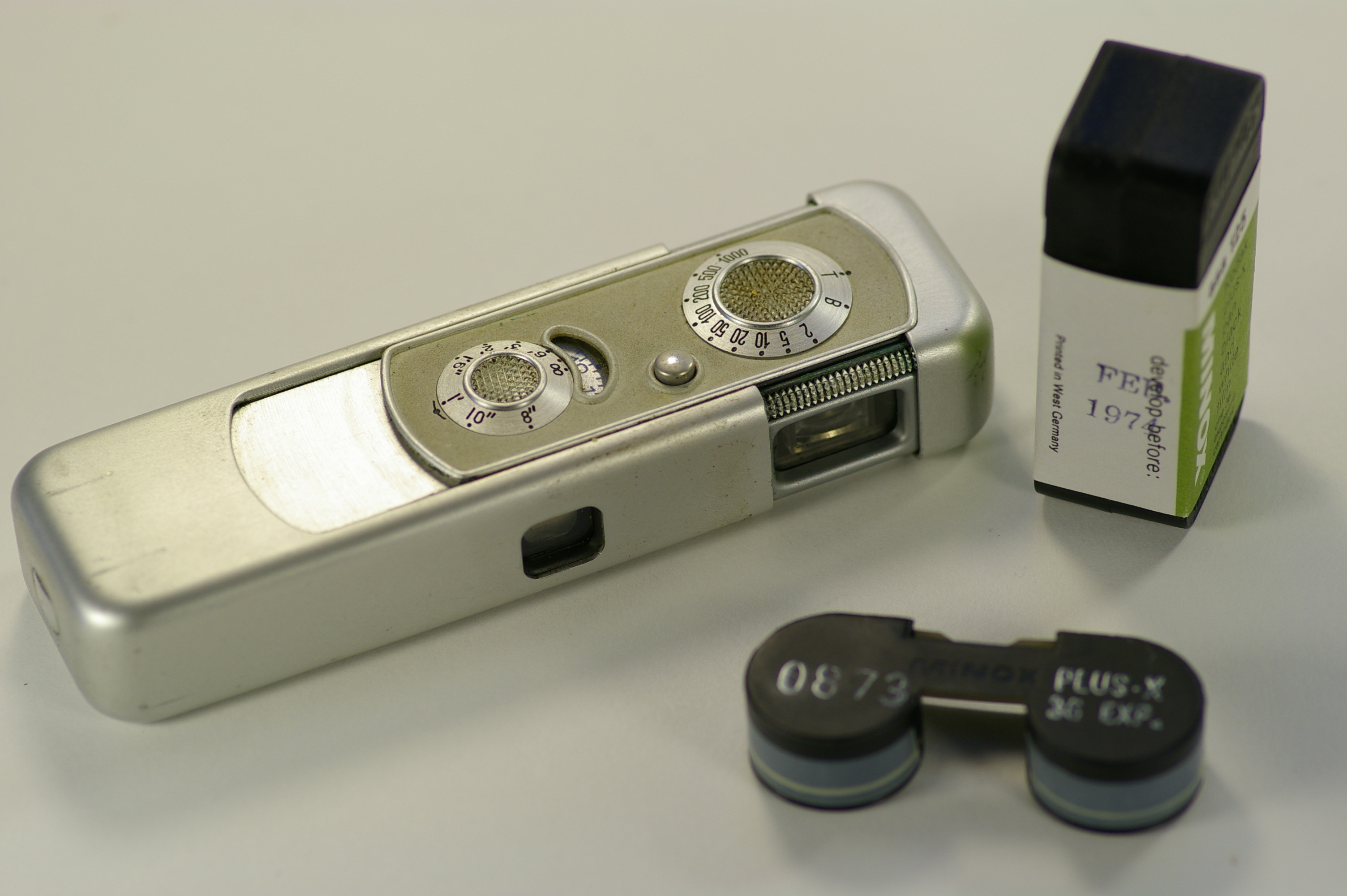 Minox IIIs with "ASA 125 Kodak plux-x pan black and white film, 36 exposure cartridge".